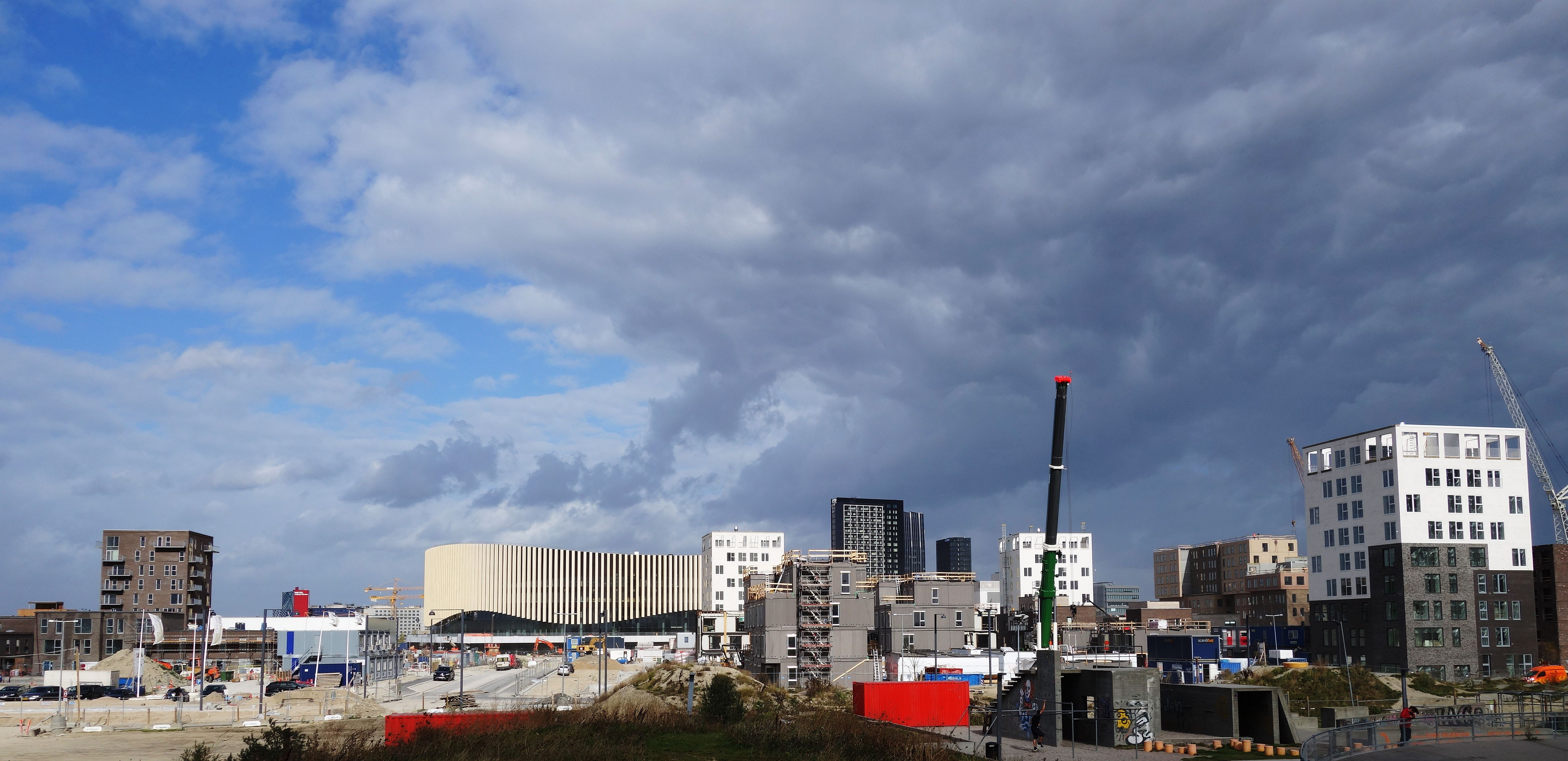 Extensive building activity in Ørestad Syd